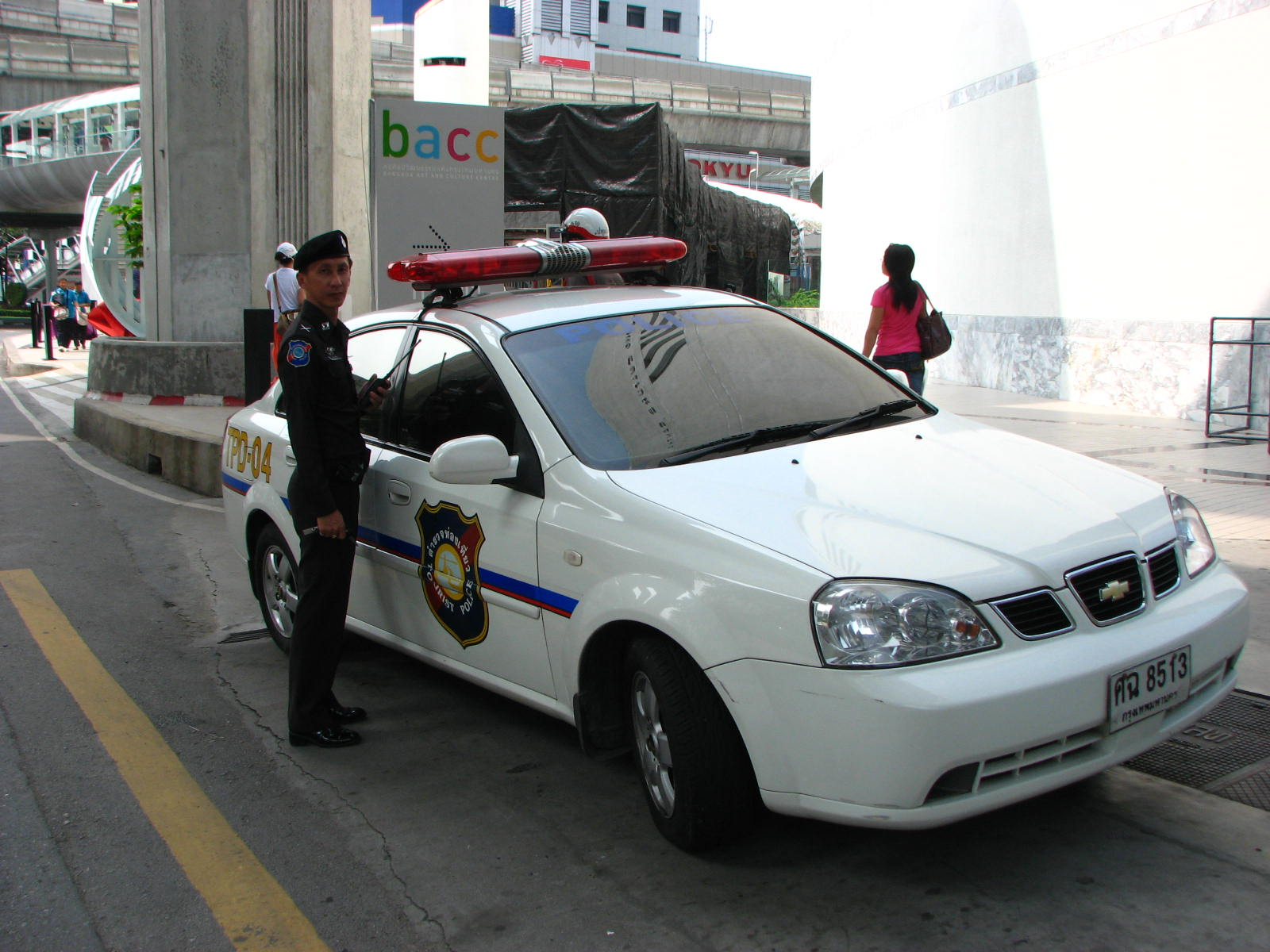 Thai Tourist Police Chevrolet Optra